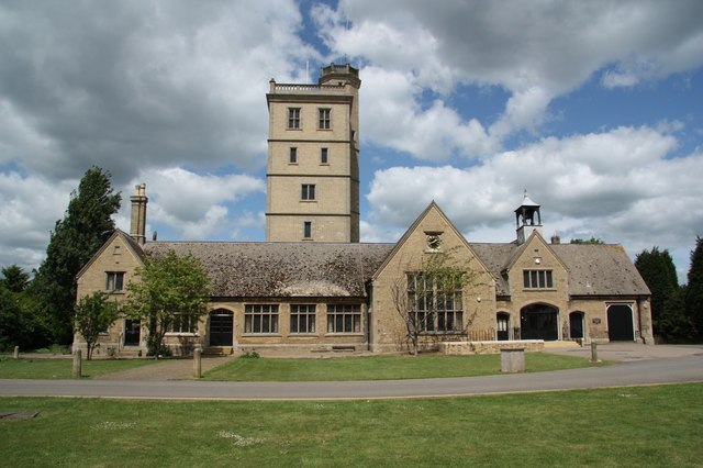 Bedford Hall The 7th Duke of Bedford's model agricultural village included a modern water supply and sewerage scheme. This neo-Jacobean building erected in 1855 includes a 96ft high water tower supplying fresh water to the 19th century village and sewerage pumping facilities. Now known as Bedford Hall